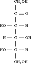 Fischer projection of L-sorbose (generated at ) PPCHTeX source: \definechemical[L-sorbose_Fischer] {\chemical[MOV3,ONE,Z0,SB3][\SL{CH_2OH}] \chemical[MOV3,ONE,Z0,SB3,DB1,Z1][C,O] \chemical[MOV3,ONE,Z0,SB135,Z51][C,HO,H] \chemical[MOV3,ONE,Z0,SB135,Z15][C,OH,H] \chemical[MOV3,ONE,Z0,SB135,Z51][C,HO,H] \chemical[MOV3,ONE,Z0,SB7][\SL{CH_2OH}]} \startchemical \chemical [L-sorbose_Fischer] \stopchemical